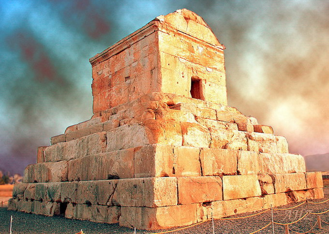 Pasargadae Tomb in Shiraz